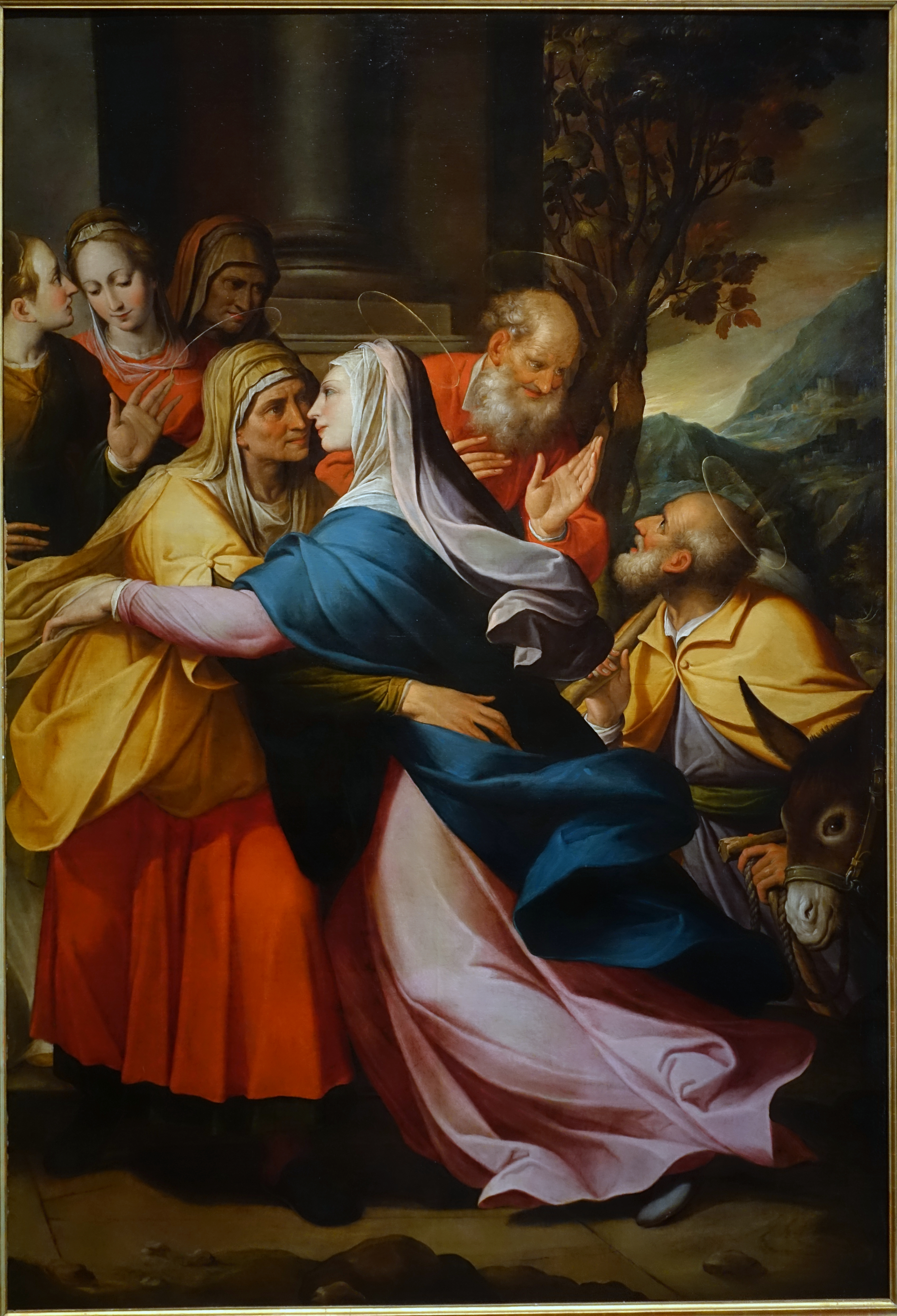 Exhibit in the Blanton Museum of Art - Austin, Texas, USA. This work is old enough so that it is in the public domain.